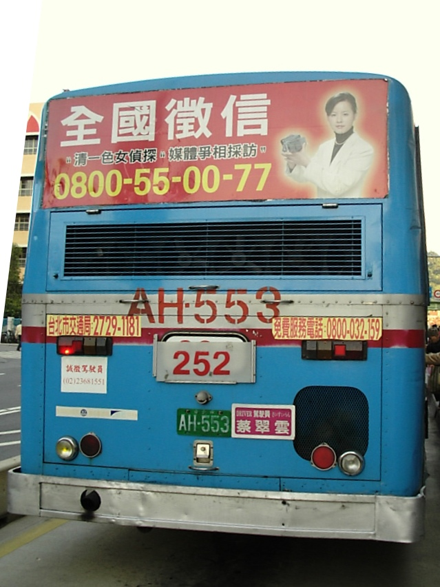 Former Shin-shin Bus Co., Ltd. Isuzu bus. (Route 252, AH-553) Profile